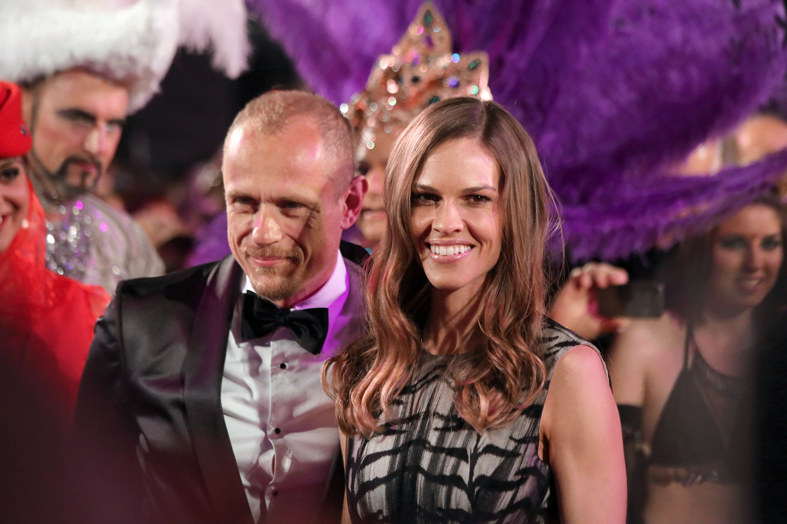 Hilary Swank and Gery Keszler on the 'magenta carpet' at Life Ball 2013 at the square in front of the city hall of Vienna, Vienna, Austria.